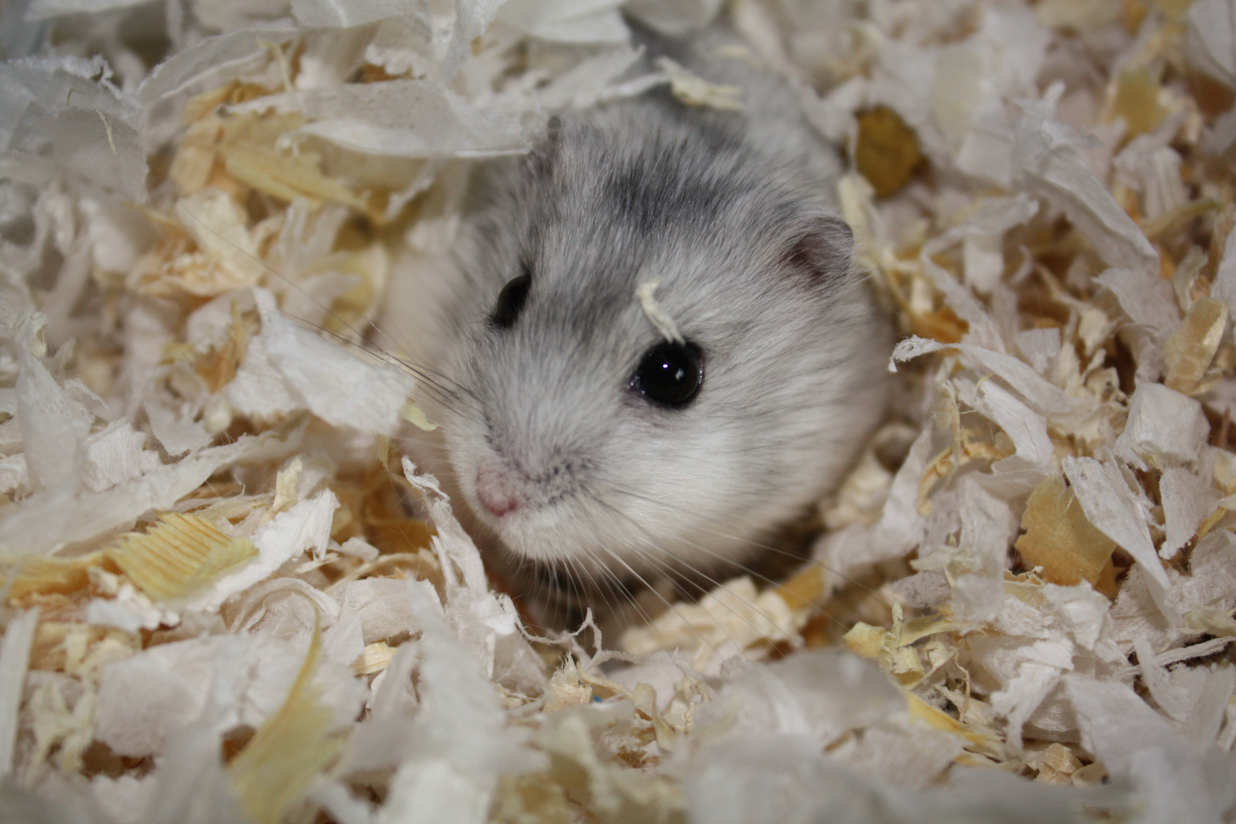 Dwarf Hamster sitting in habitat